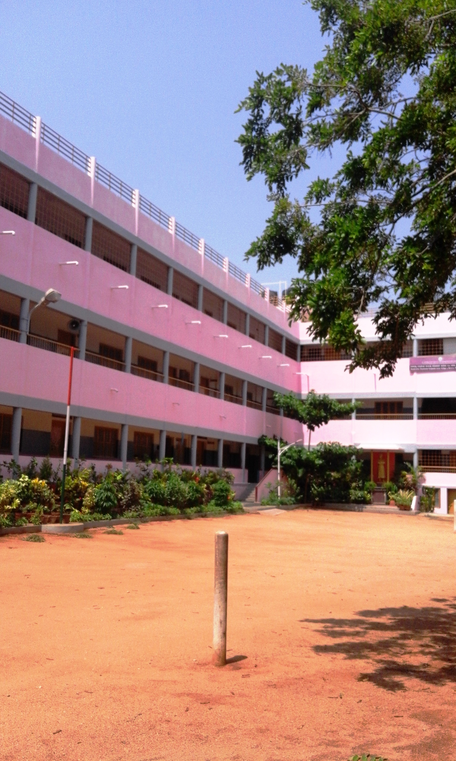 Mysore city, Karnataka province, India.